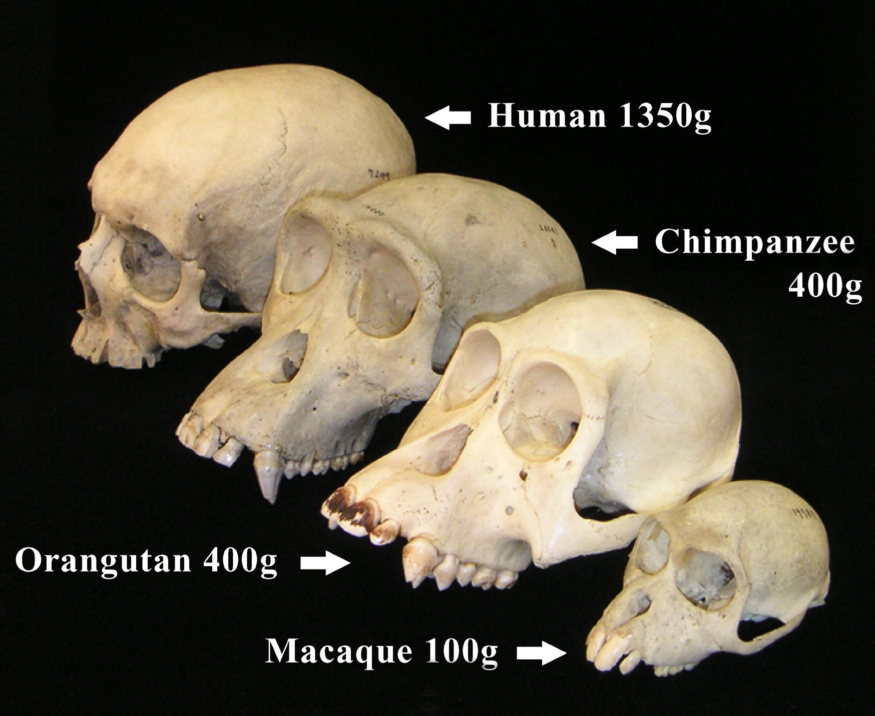 Primate skulls provided courtesy of the Museum of Comparative Zoology, Harvard University.